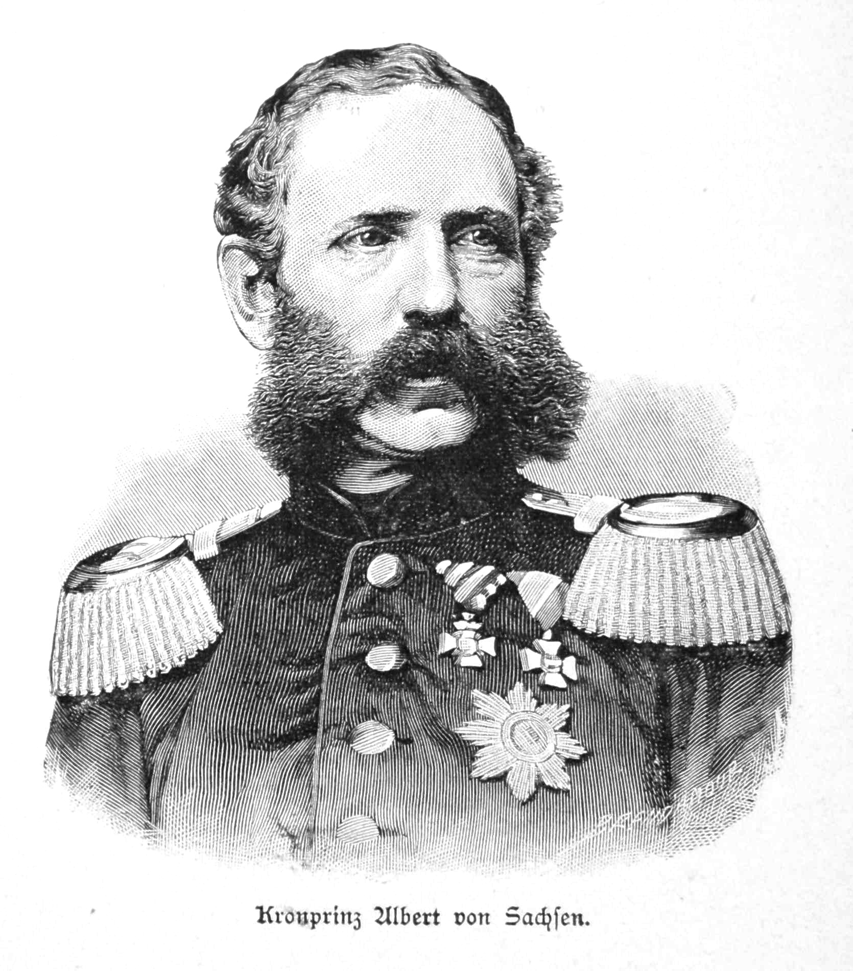 crown prince Albert von Sachsen